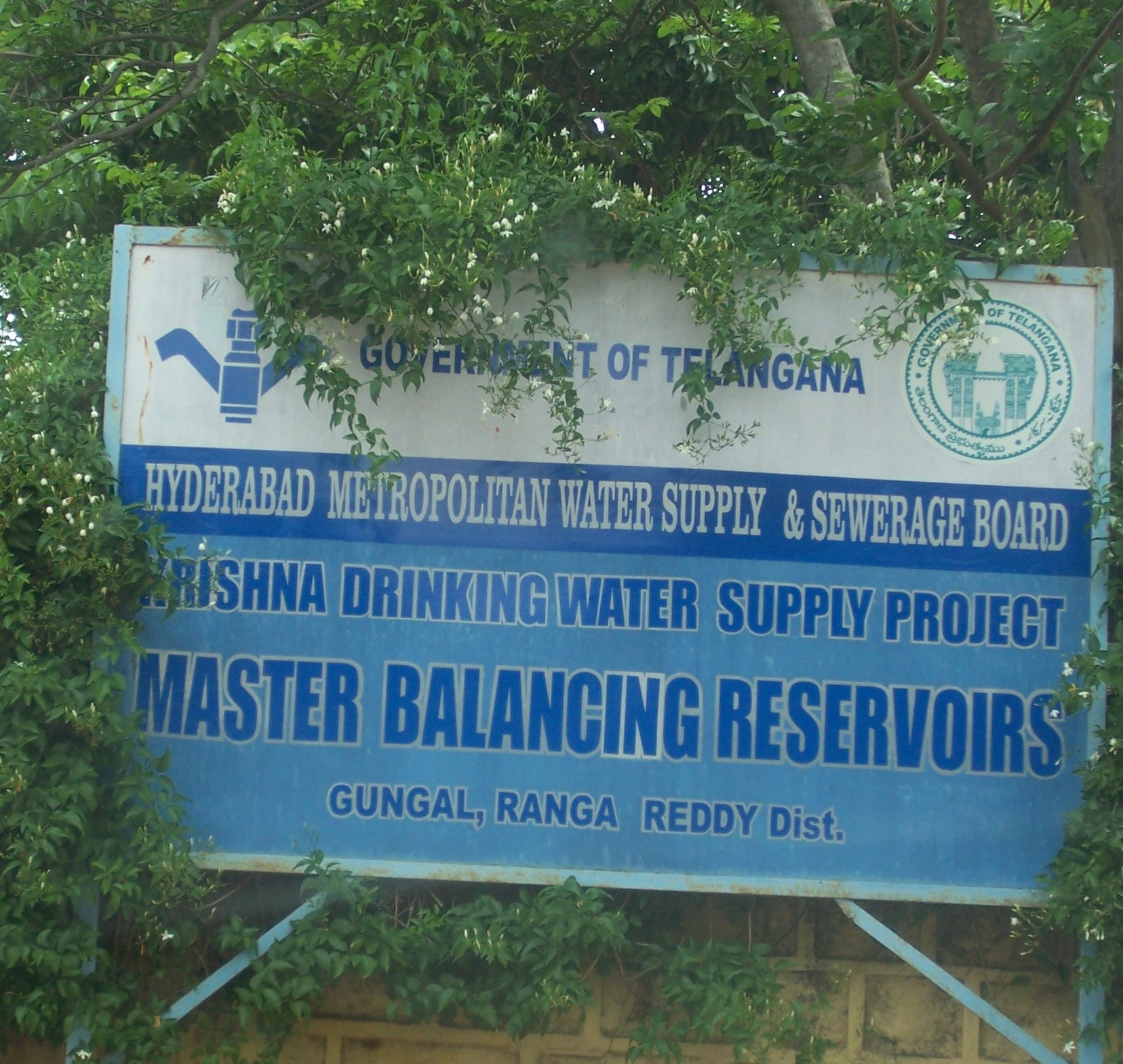 Reservoyar at Gungal